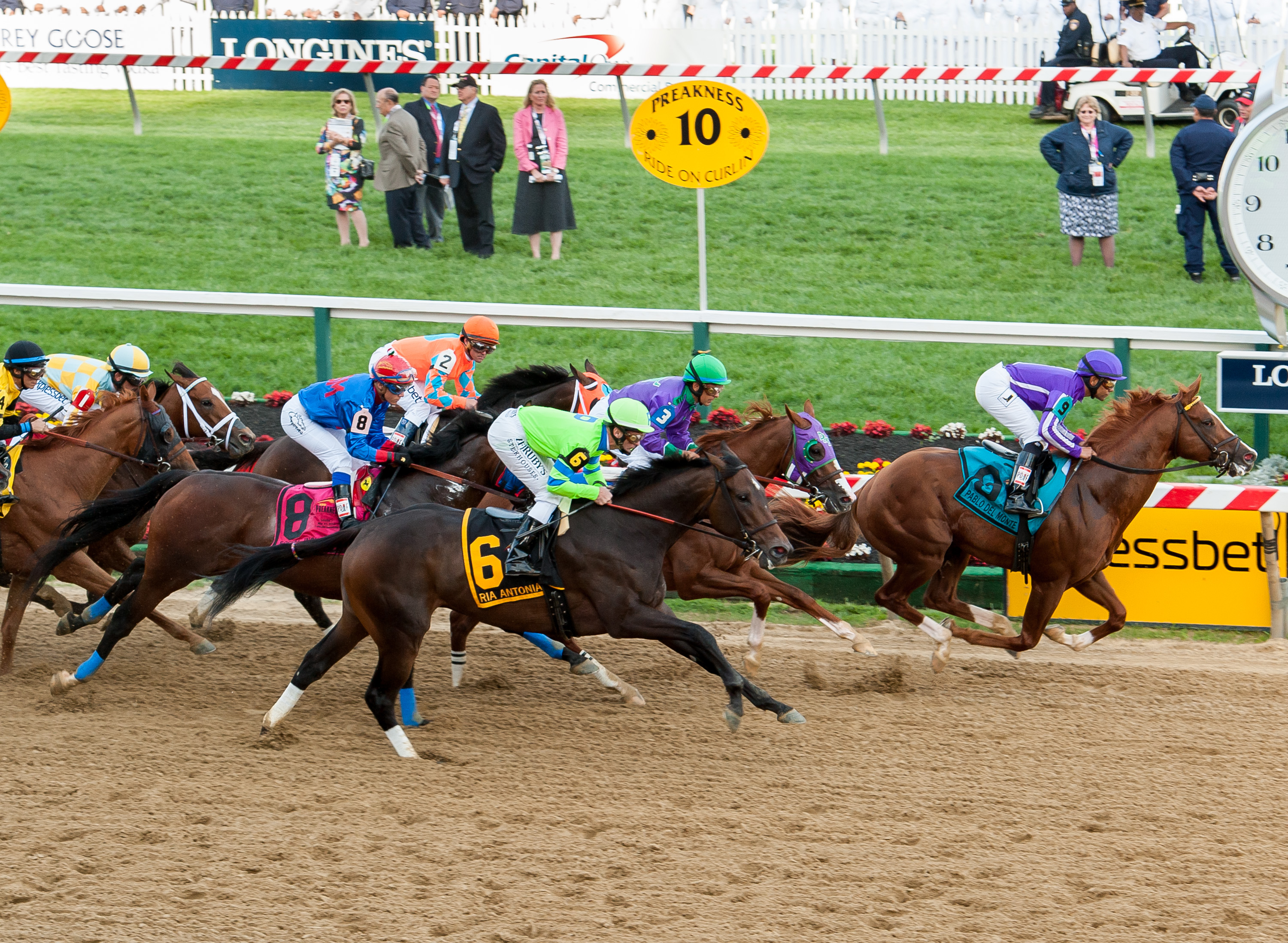 First time past the stands in the 139th Preakness Stakes. by Jay Baker at Baltimore, MD.